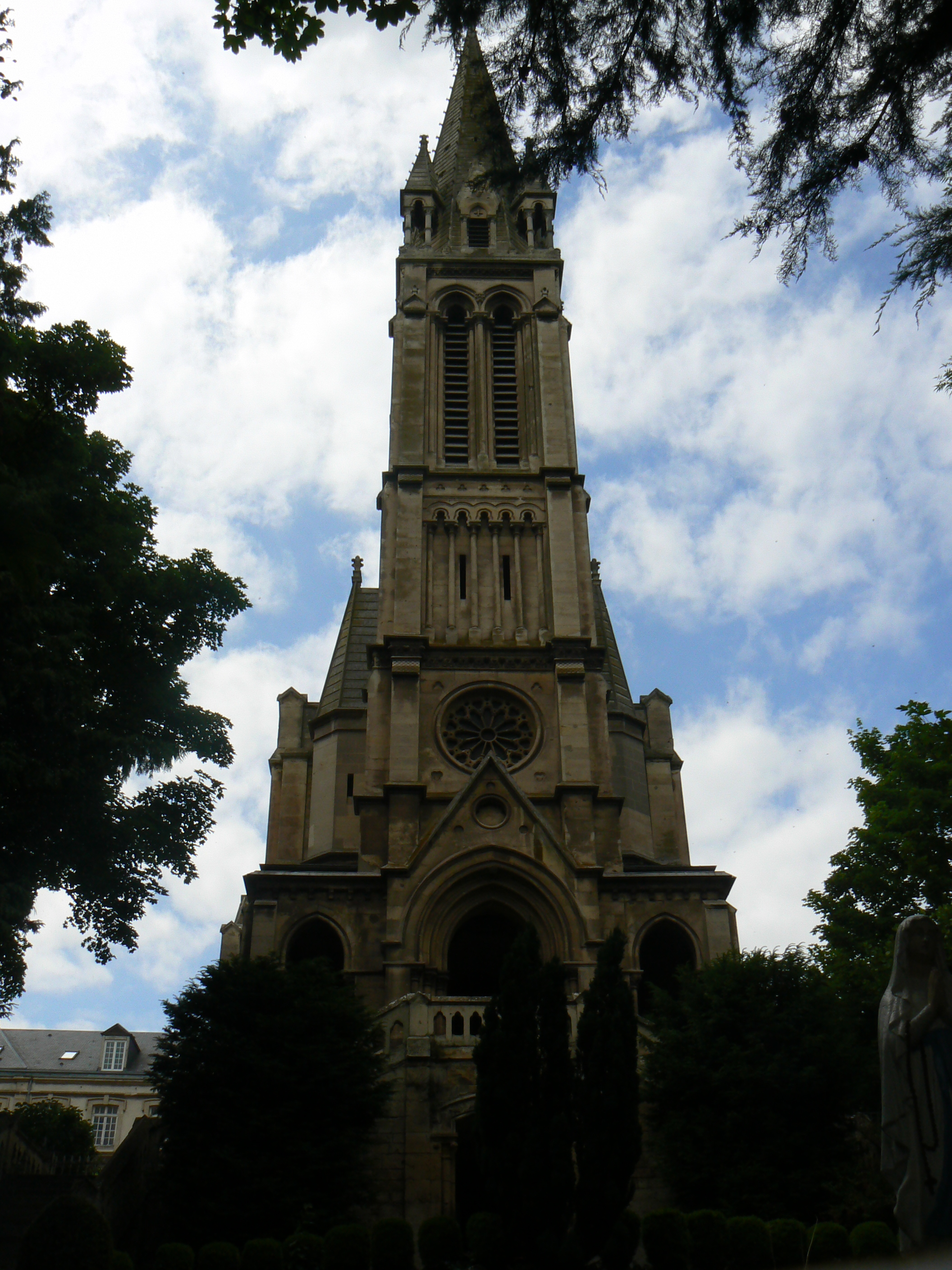 Petit-Lourdes in Hérouville-Saint-Clair (Calvados)